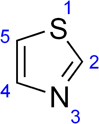 Chemical structure of thiazole created with ChemDraw.